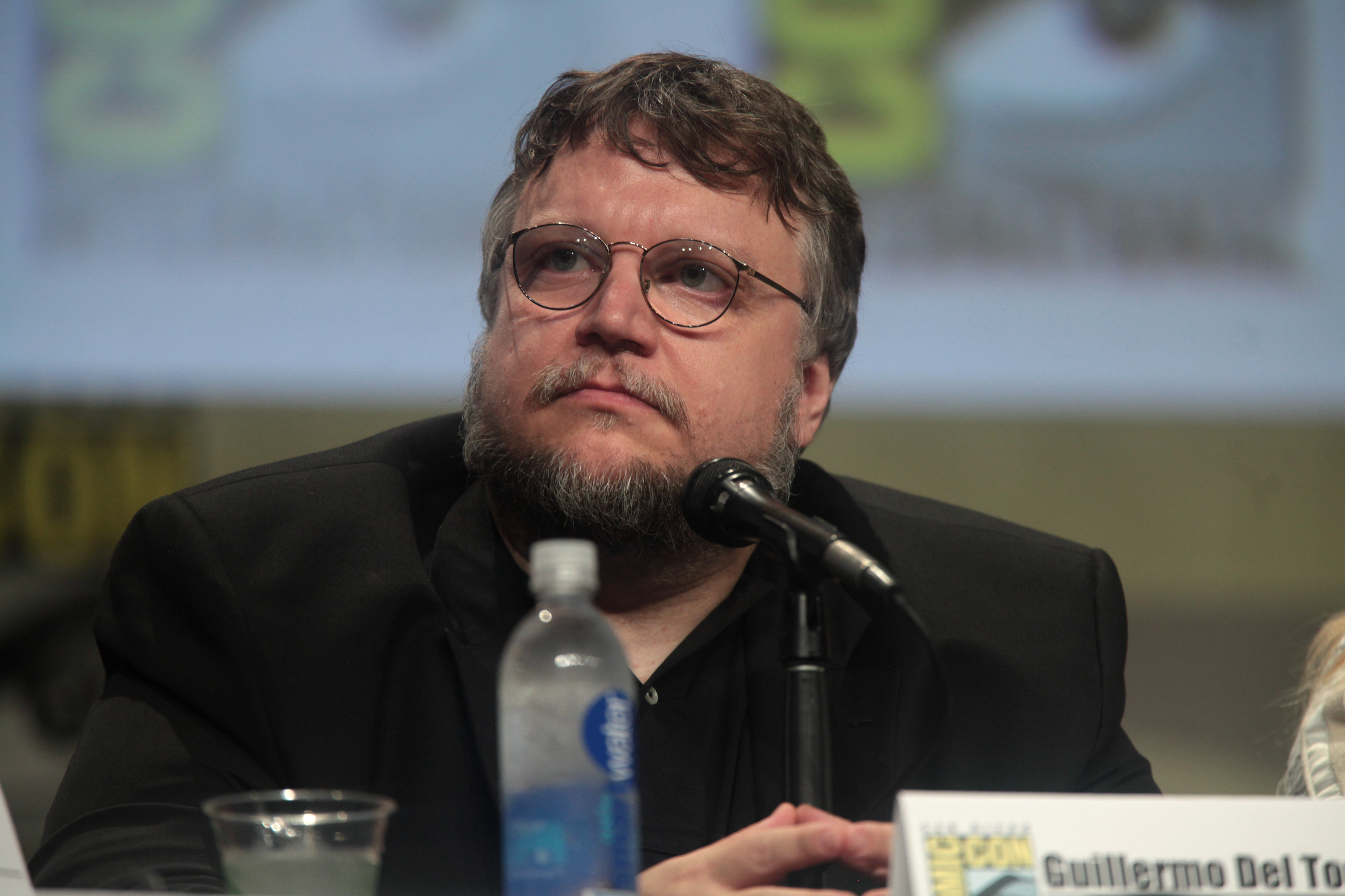 Guillermo del Toro speaking at the 2014 San Diego Comic Con International, for "The Book of Life", at the San Diego Convention Center in San Diego, California.